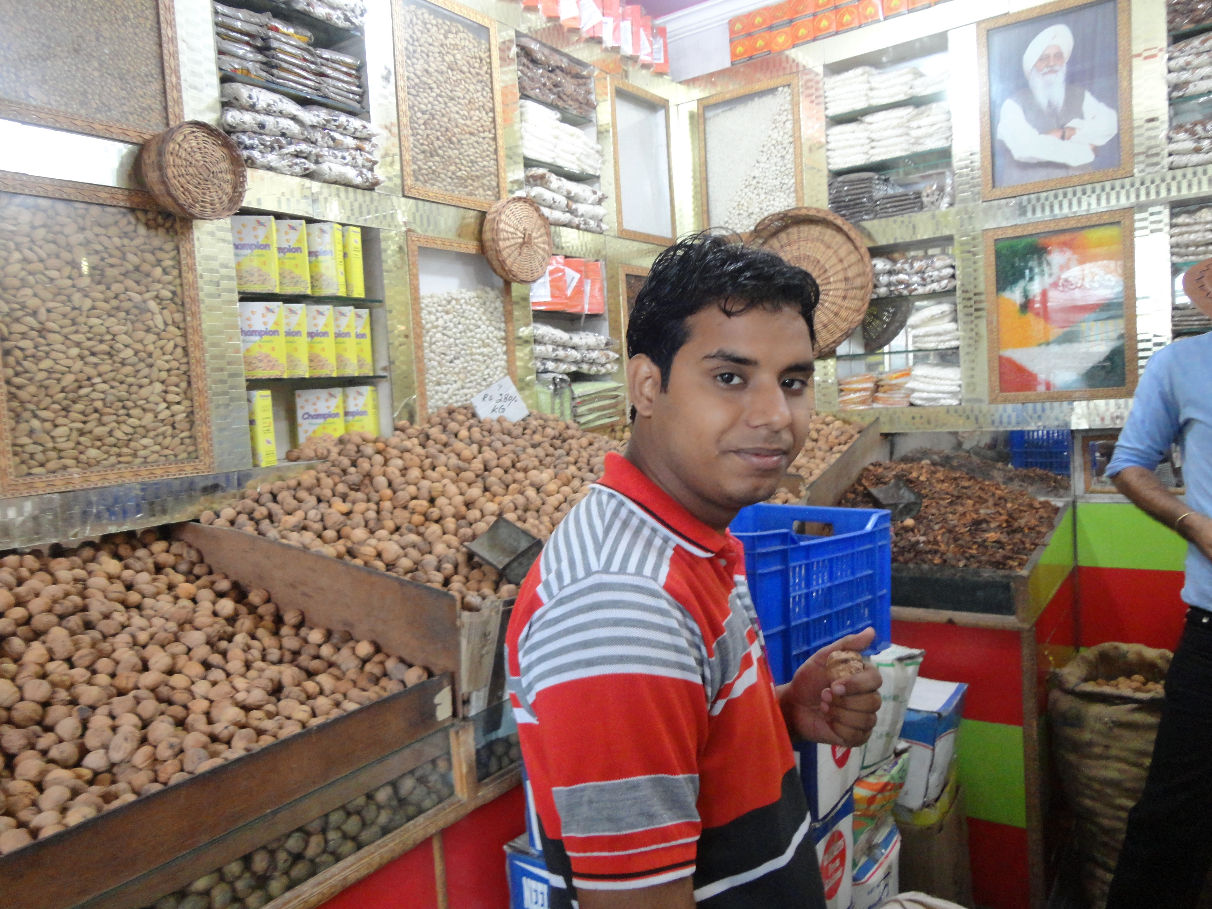 A walnut retail store in Jammu, Jammu & Kashmir, India